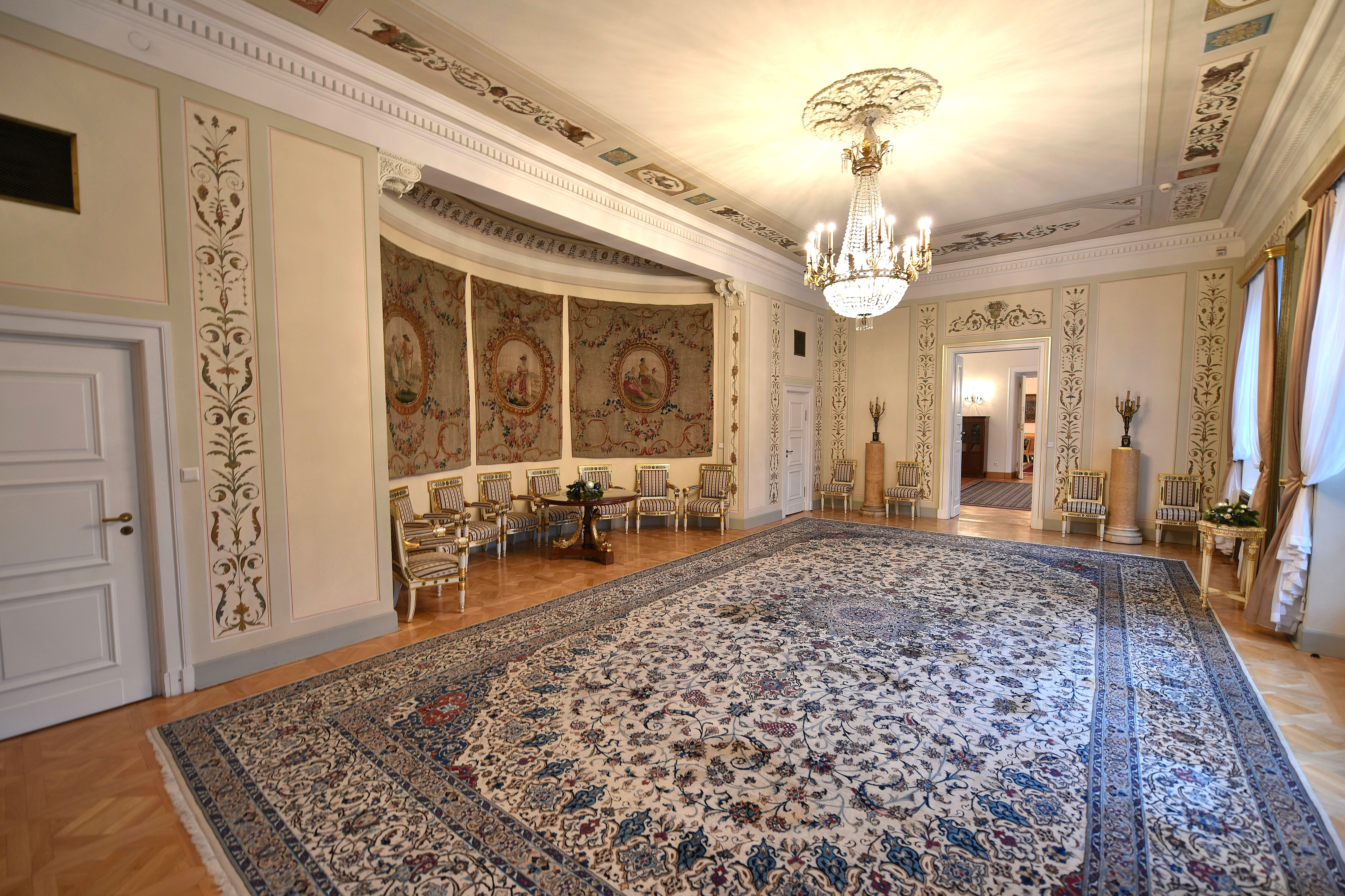 Pompei Hall in the Belweder Palace in Warsaw